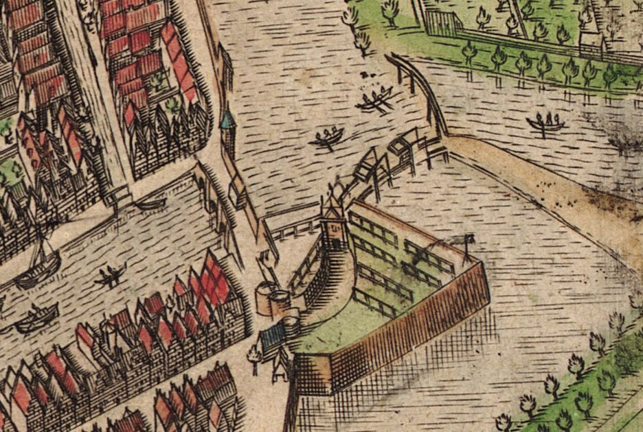 Detail of the map of Leiden by Pieter Bast (1600) showing the Costverlorenpoort (Oude Hogewoerdspoort) and the Oude Hogewoerdsbuitenpoort